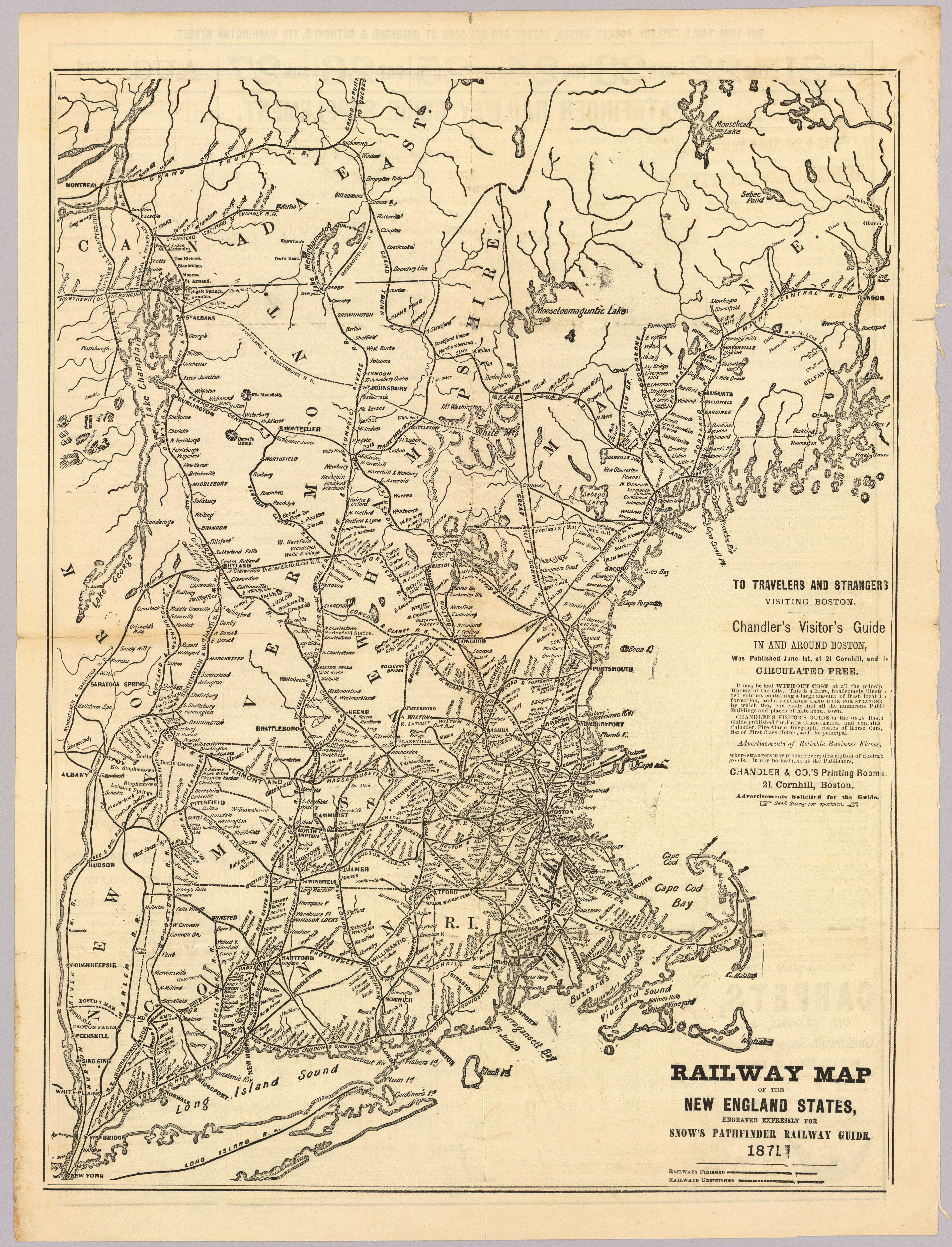 Railway map of the New England States, engraved expressly for Snow's Pathfinder railway guide, 1871.